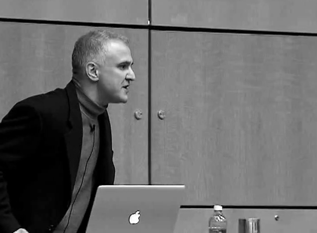 Image of Peter Boghossian lecturing at Portland State University